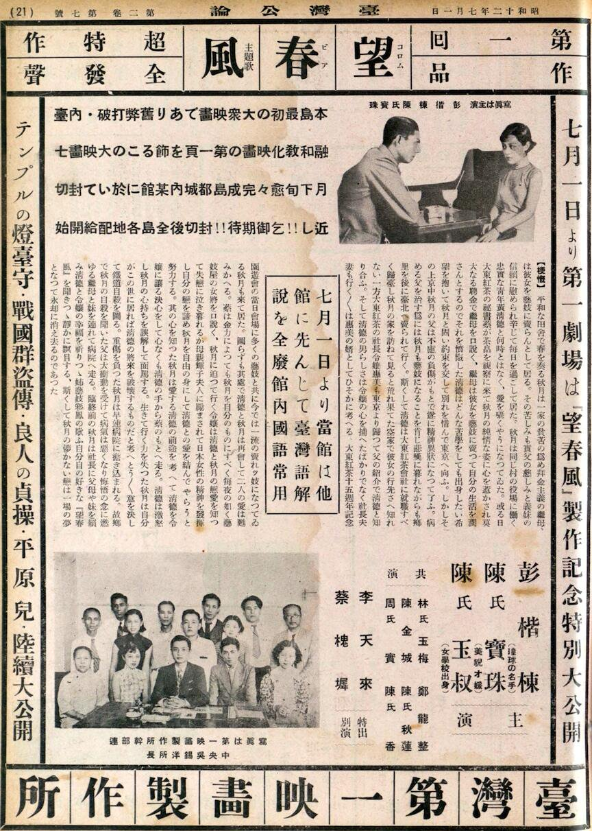 An Introduction of the 1938 Taiwanese film "望春風" on the magazine 臺灣公論.